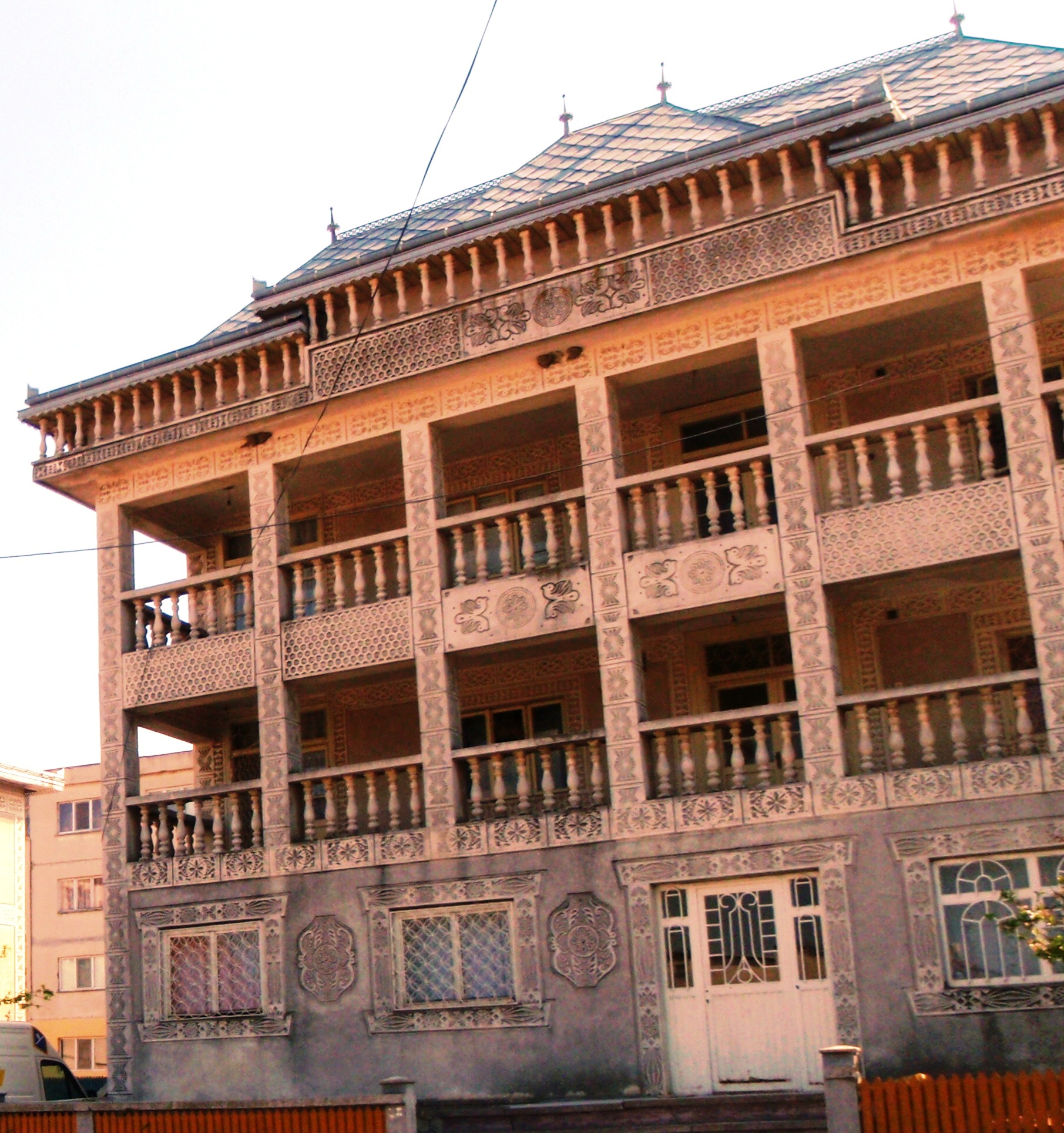 Roma and sinti-architecture in the town of Hârşova, Constanţa county, Romania.